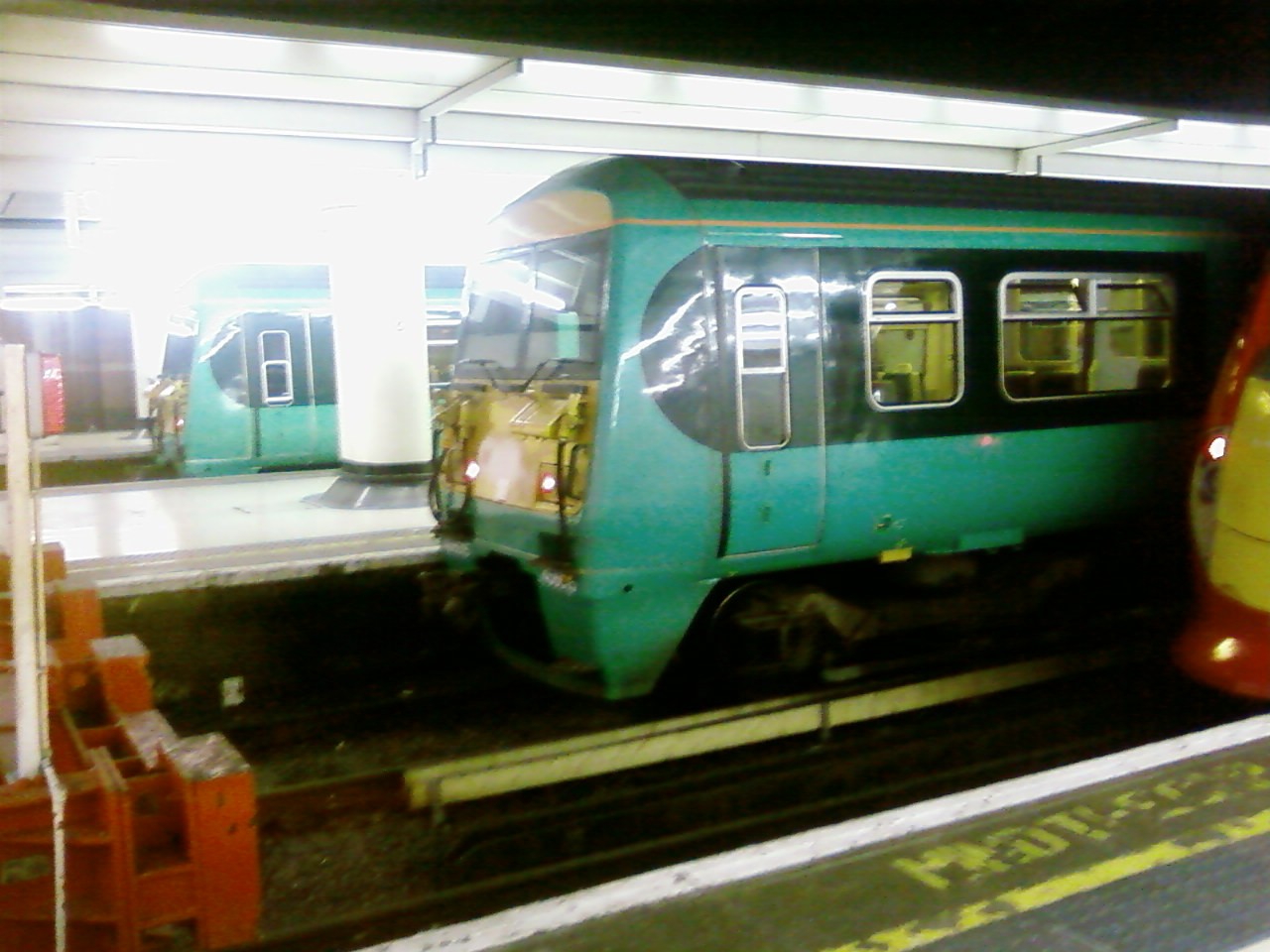 Class 456 EMUs in Southern livery at London Victoria platforms 11 and 12.